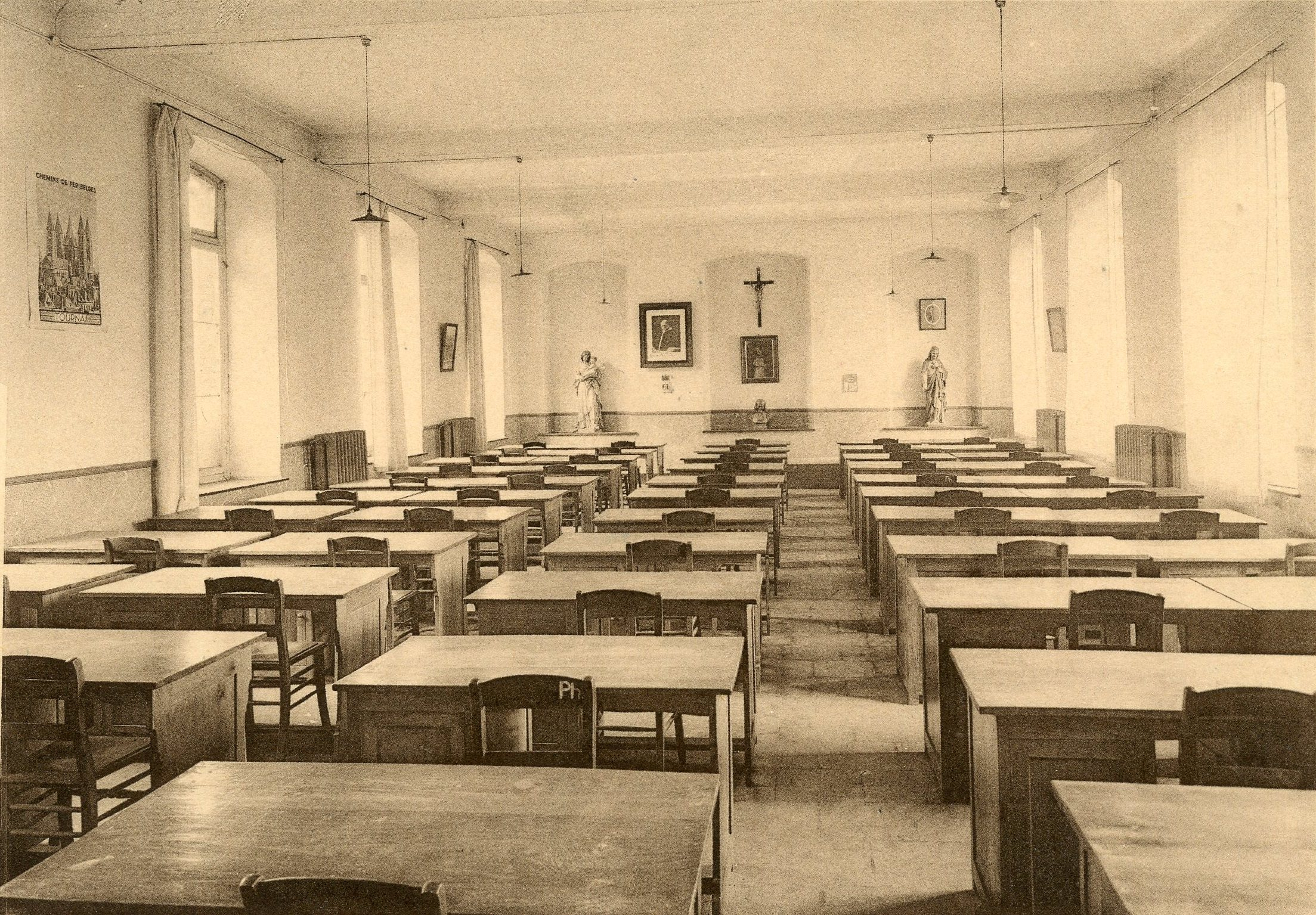 Bonne-Espérance Abbey, Vellereille-les-Brayeux (Belgium), a study hall of the Minor Seminary.